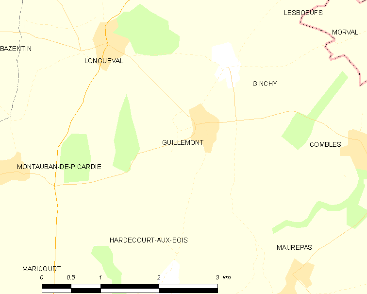 Map of French municipality Guillemont